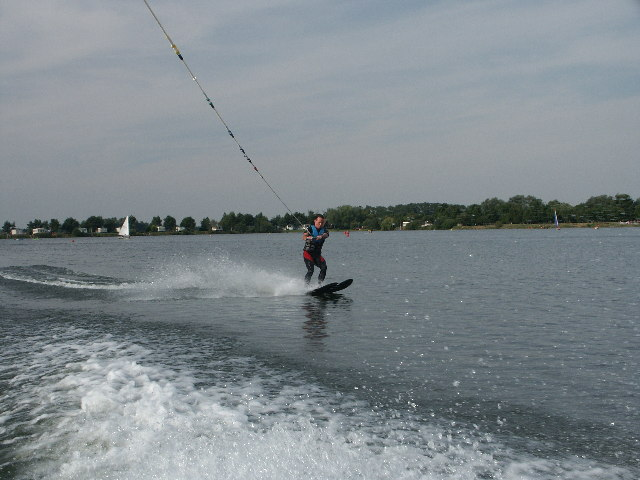 Tallington Lakes from a boat. A different view of the lakes.